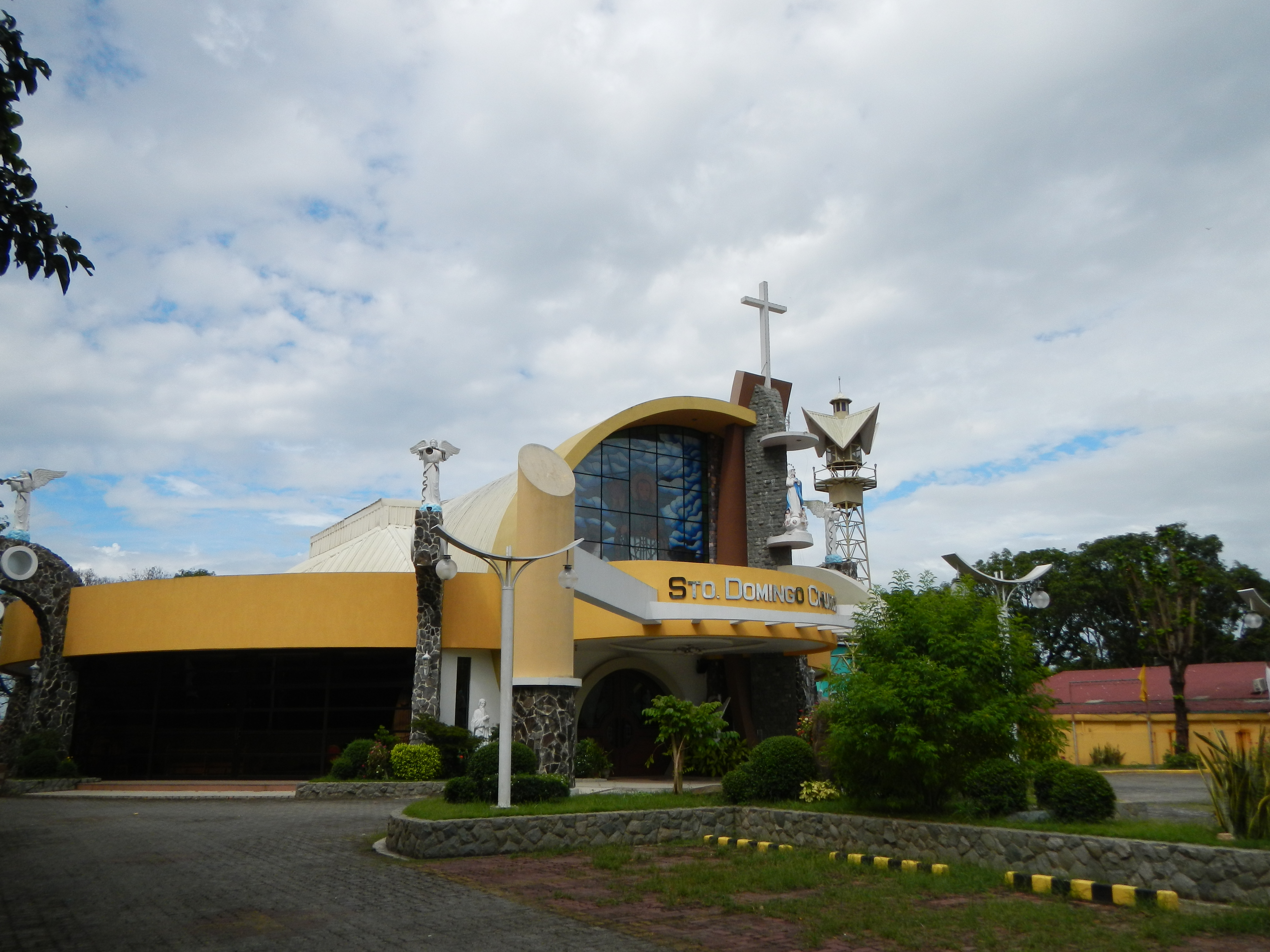 Roman Catholic Archdiocese of San Fernando[1] 2012 Sto. Domingo de Guzman Parish, Sto. Domingo, Mexico, Pampanga Mexico, Pampanga[2]